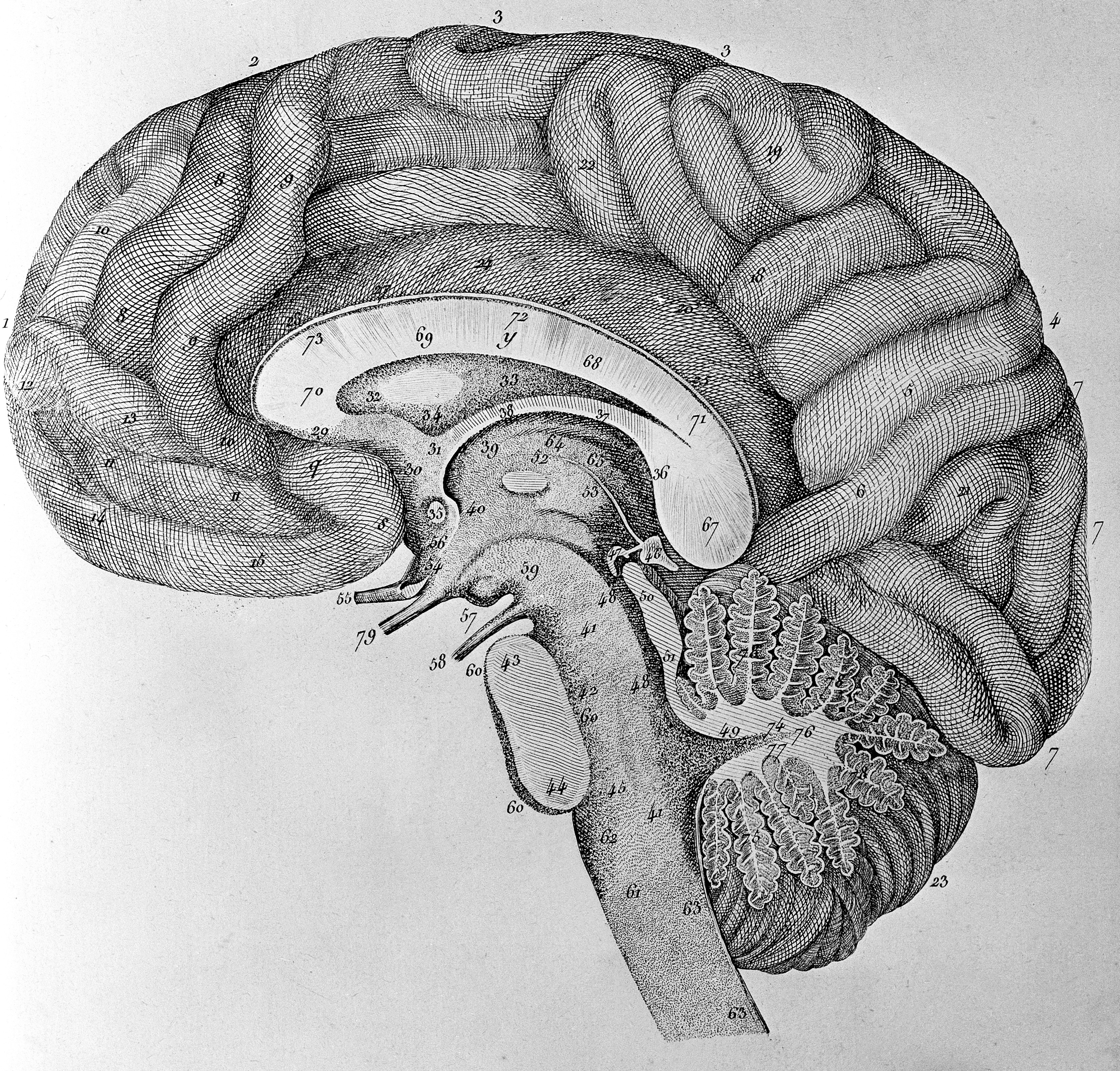 Medial section of human brain, showing gyri depicted enteroidally. Rare Books Keywords: Anatomy